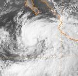 Hurricane Elida near peak strength on 1990-06-28